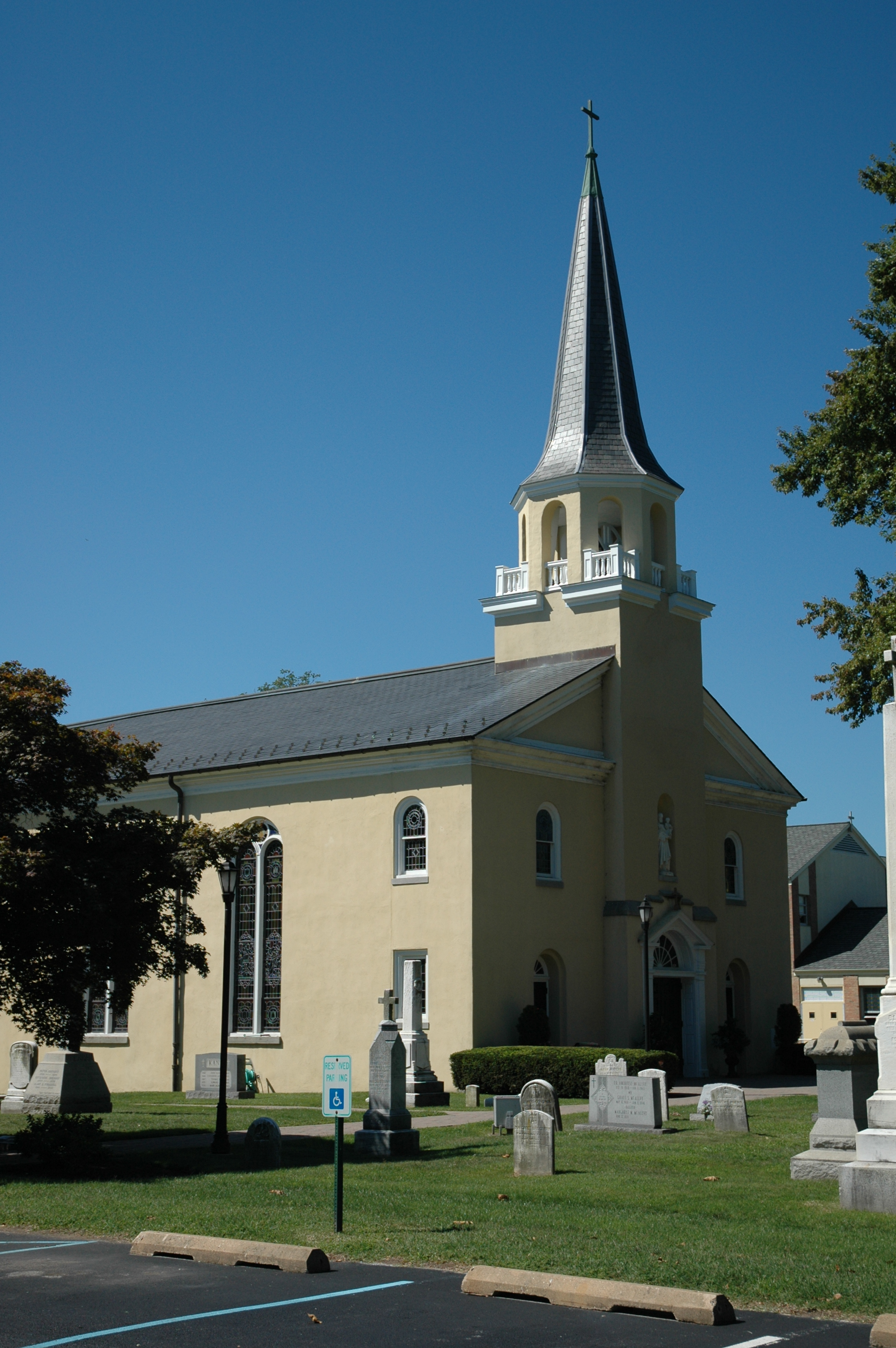 Saint Joseph on the Brandywine Catholic Church in Wilmington Delaware that was associated with the DuPont Company